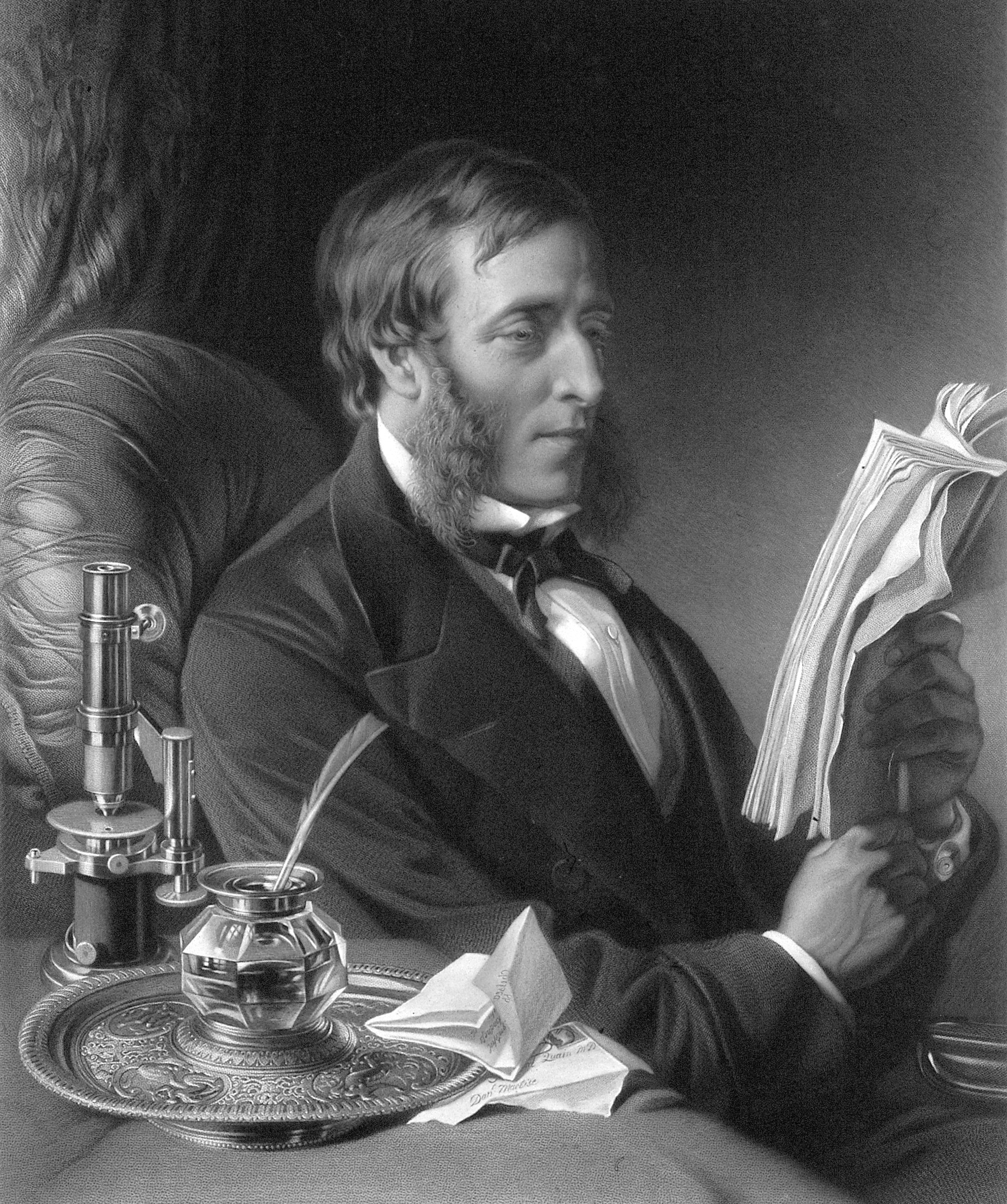 Irish physician Richard Quain (1816-1898)